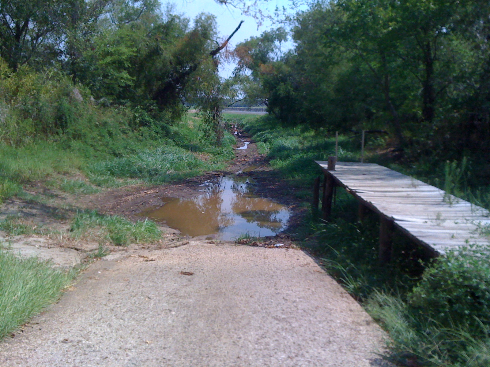 A public boat launch on Lake Palestine in Henderson county, Texas during extreme drought conditions. On average, water levels would be approximately 1-2 feet below the short pier seen at right.